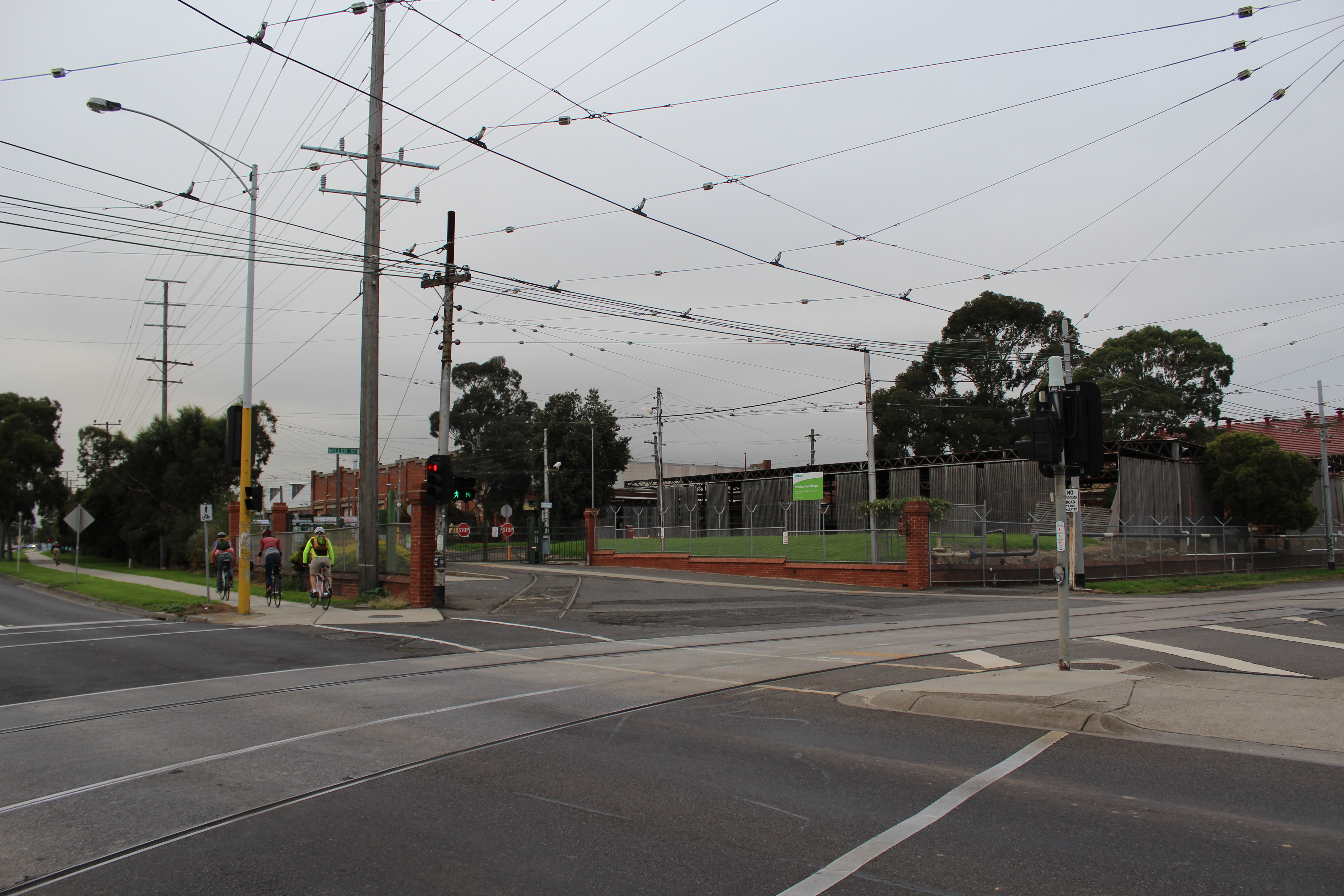 Miller Street entrance to Preston Workshop, viewed from the median strip in St Georges Road, April 2013.